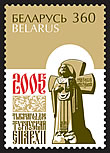 Stamp of Belarus